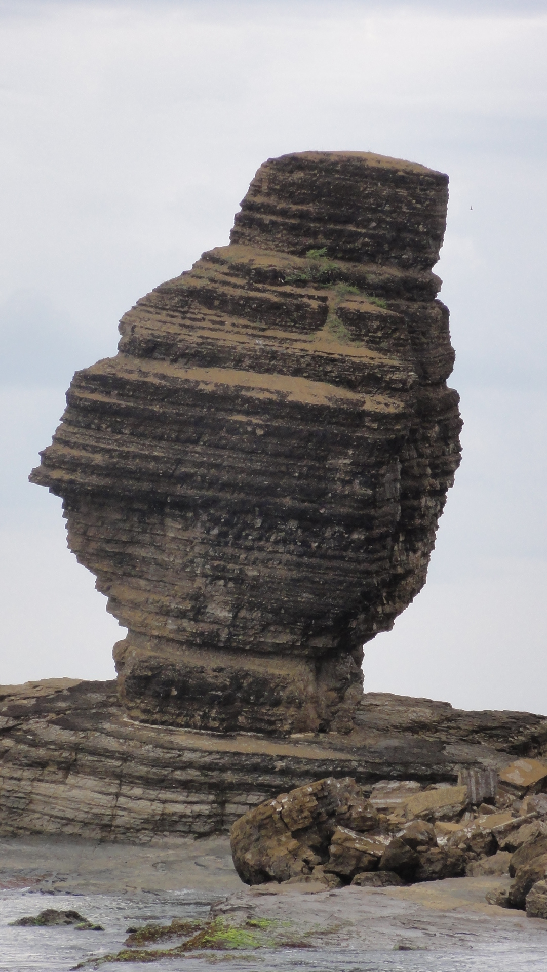 Bonhomme de Bourail